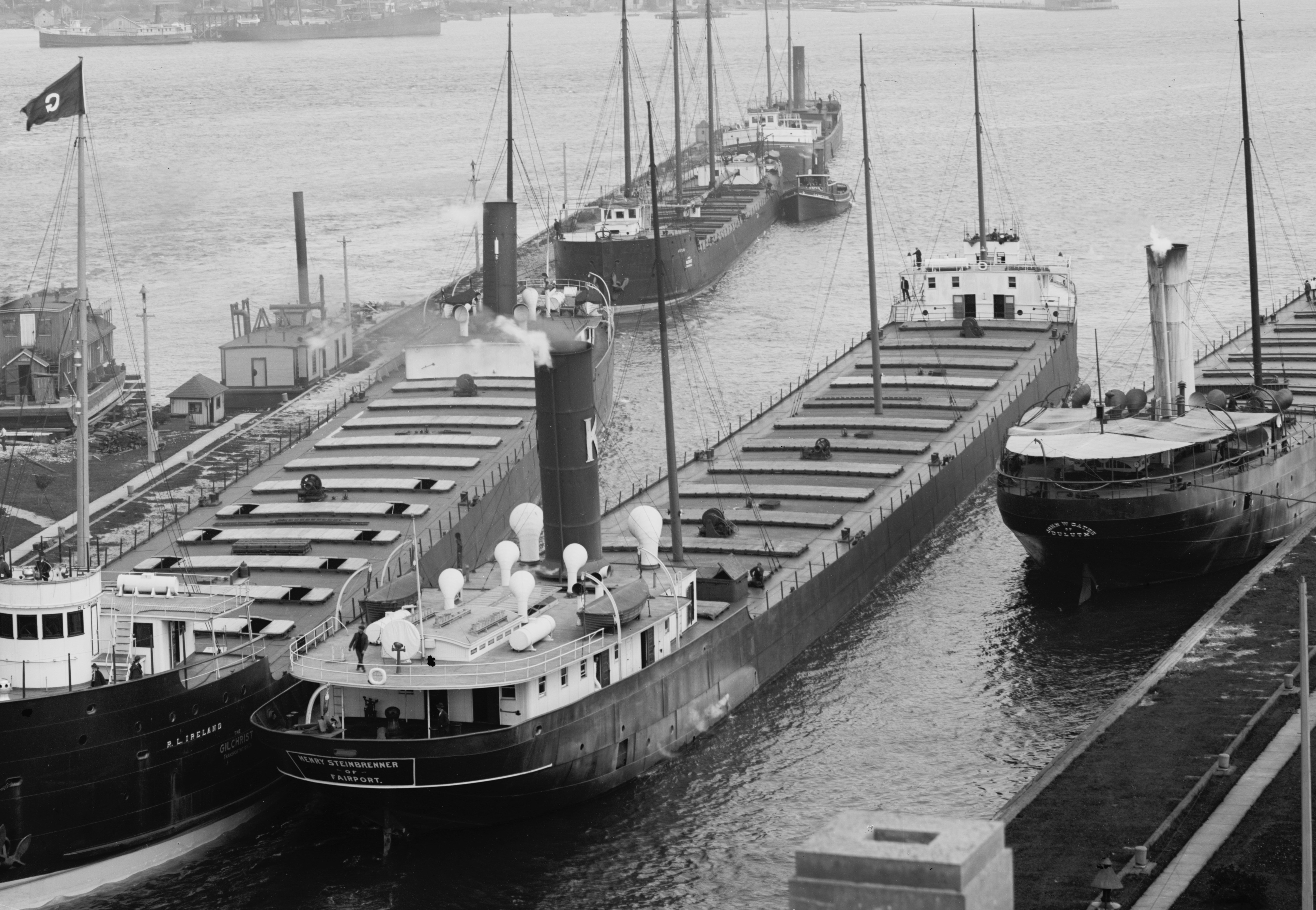 Library of Congress description: Title: St. Mary's River south from the locks, Sault Ste. Marie, Mich. Related Names: Detroit Publishing Co. , copyright claimant Detroit Publishing Co. , publisher Date Created/Published: c1905. Medium: 2 negatives : glass ; 8 x 10 in. Reproduction Number: LC-D4-10880 L (b&w glass neg.) LC-D4-10880 R (b&w glass neg.) Call Number: LC-D4-10880 [P&P] Repository: Library of Congress Prints and Photographs Division Washington, D.C. 20540 USA Ships in lock, left to right: R.L. Ireland, Henry Steinbrenner of Fairport, John W. Gates of Duluth. "G-2251" on left negative. Detroit Publishing Co. no. 010880. Gift; State Historical Society of Colorado; 1949. Format: Dry plate negatives. Panoramic photographs. Part of: Detroit Publishing Company Photograph Collection This image is a smaller part of a panorama. The panorama was also published as a colorized postcard. identifies additional ships in image as barge Antrim with tug C.L. Boynton, left above R.L. Ireland and Philip Minch in top center[1]